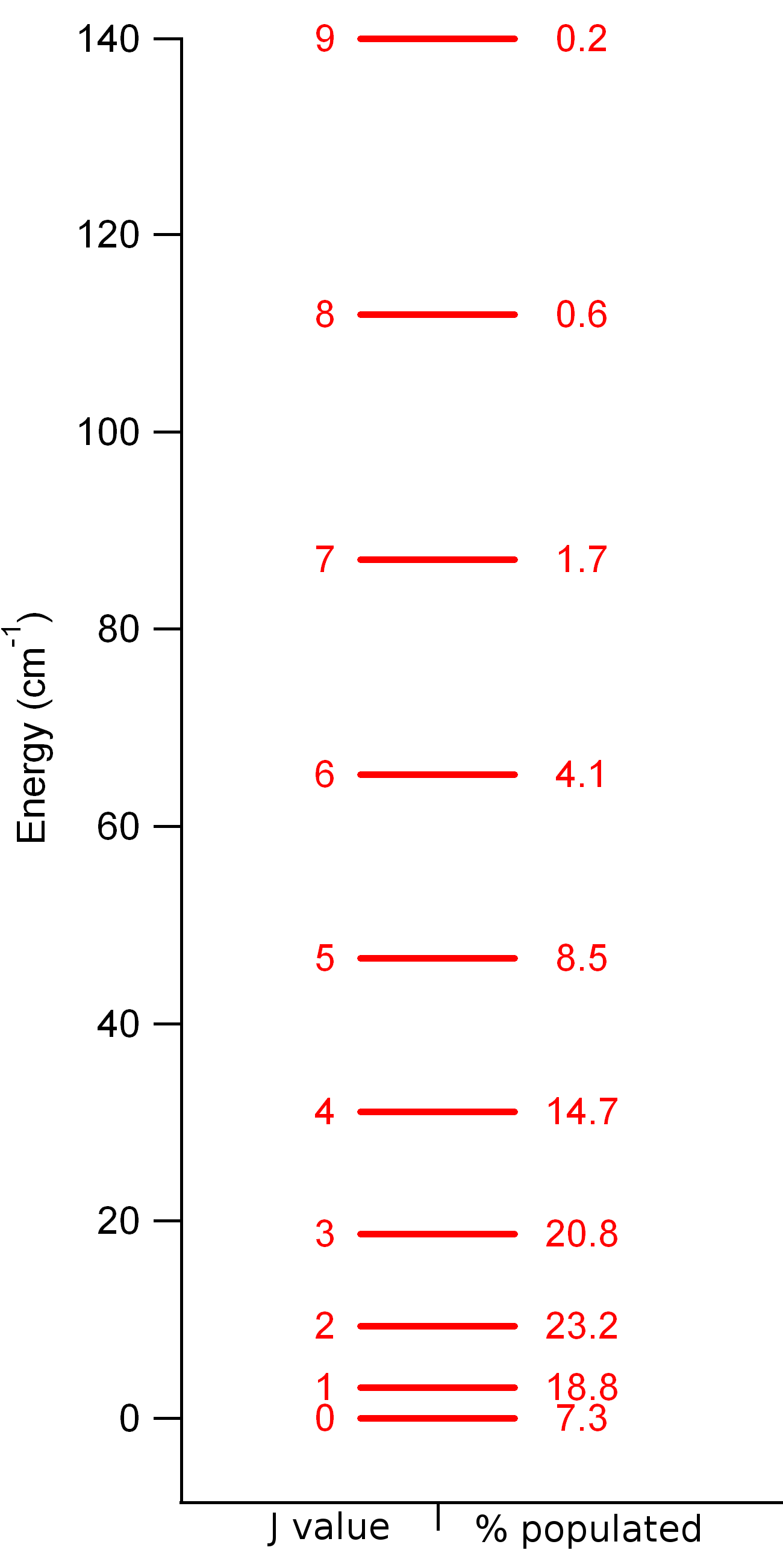 Energy level diagram of rotational levels of N2H+